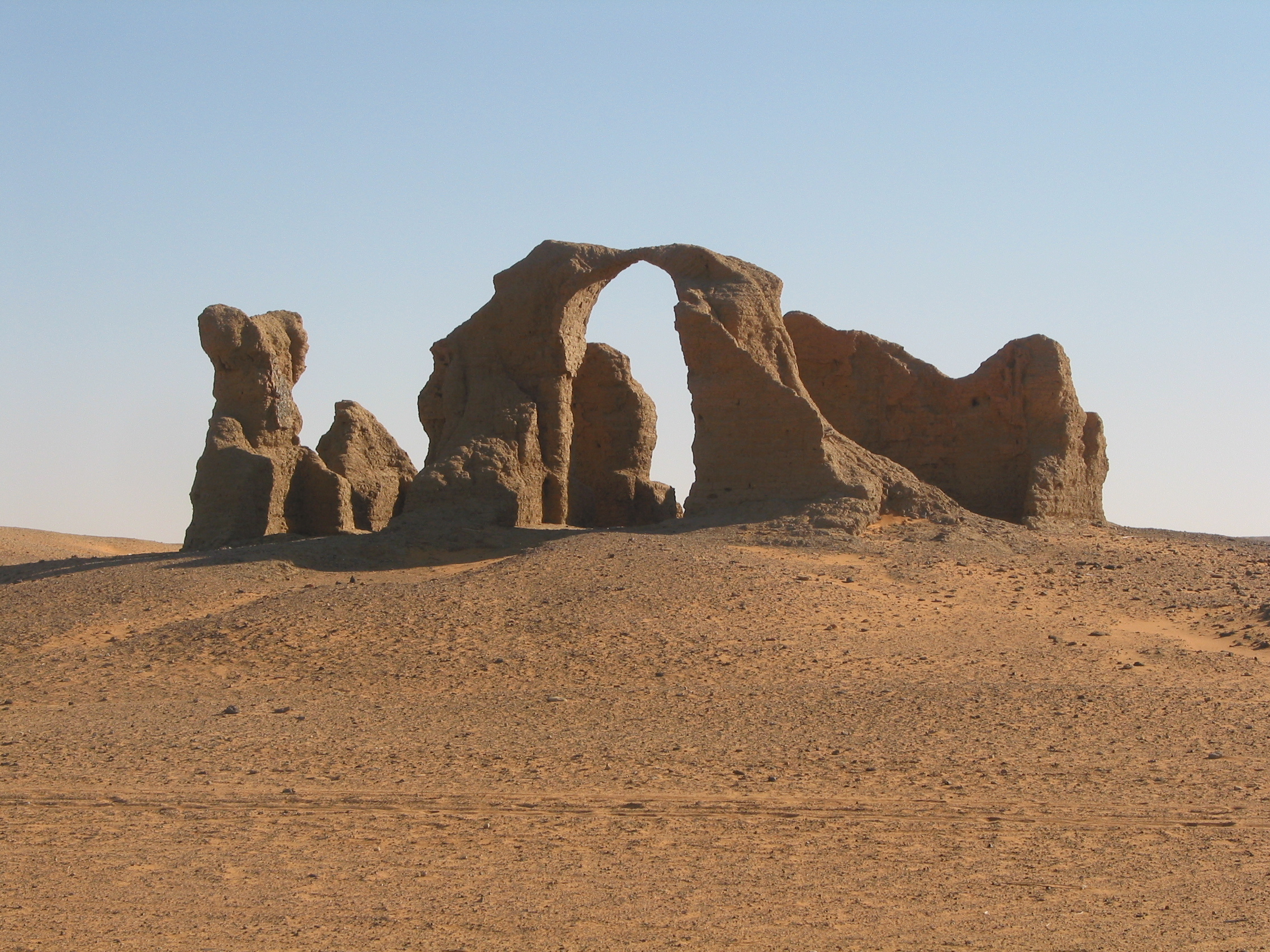 The remains of the North Church in Old Dongola, the former capital of the Nubian kingdom of Makuria. Probably errected in the 13th century. See Godlewski: "Dongola - ancient Tungul. archaeological guide, pp. 72-74.